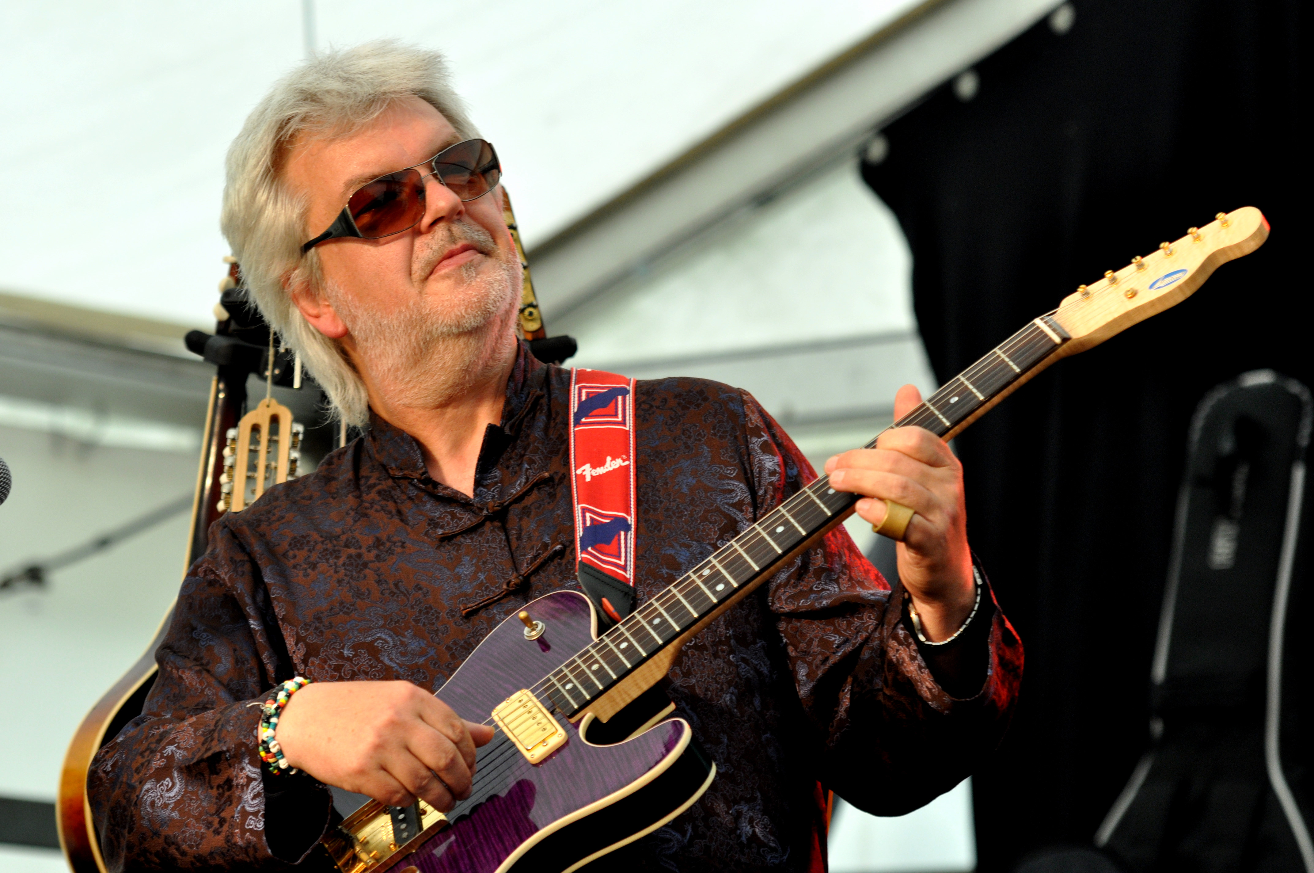 Michael Bauer with Adax Dörsam and Wolfgang Schuster (DEU) appearance at the 2017 song festival at Burg Waldeck Castle, Rhineland-Palatinate, Germany Festivalsommer This photo was created with the support of donations to Wikimedia Deutschland in the context of the CPB project "Festival Summer".